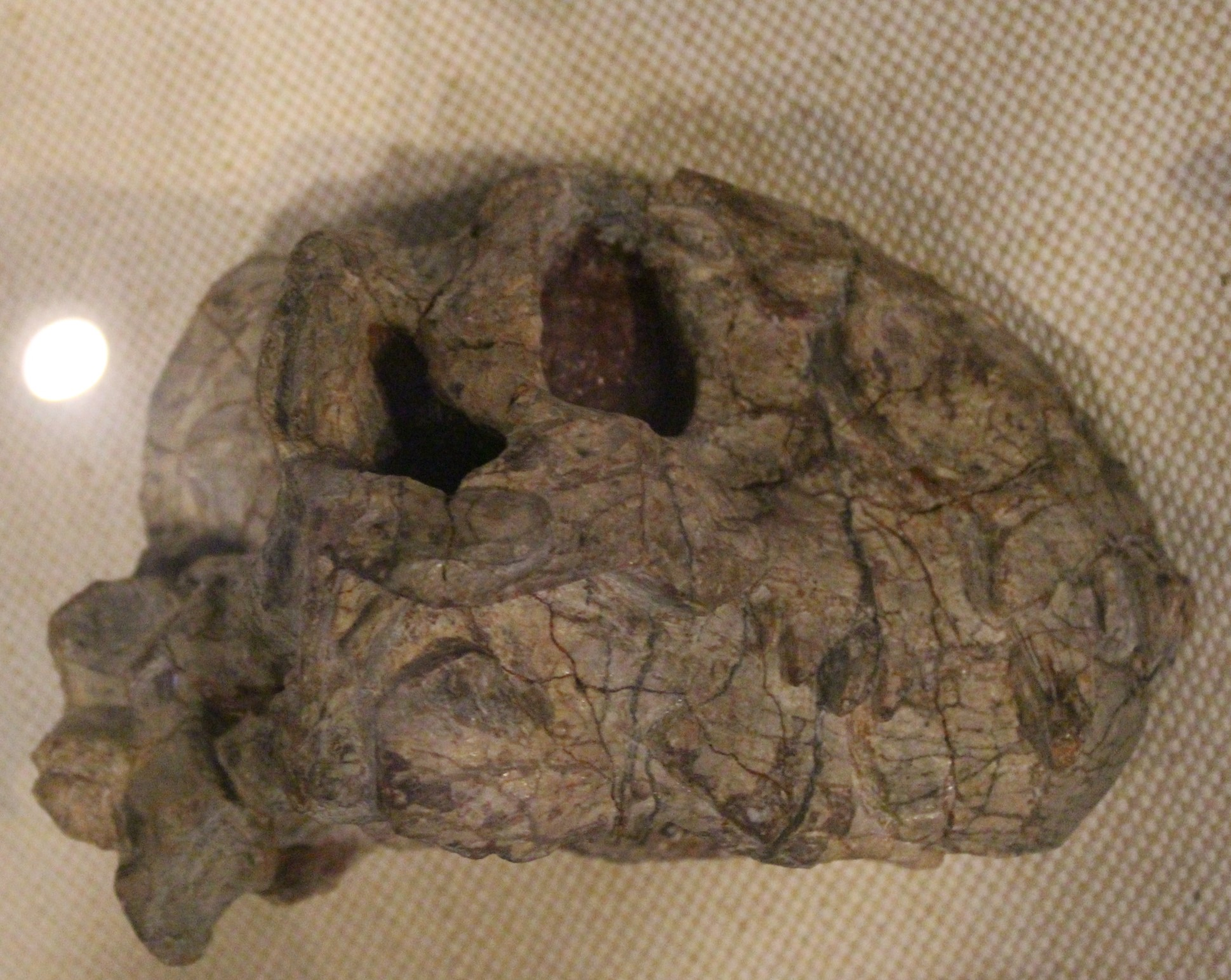 Skull of Sinophoneus yumenensis on display at the Paleozoological Museum of China.